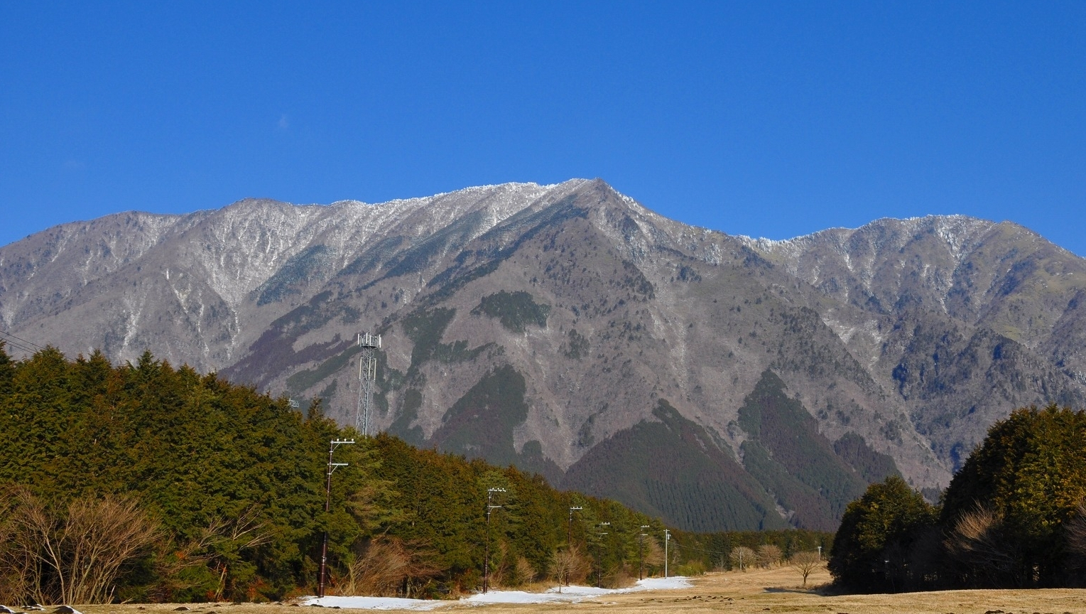 Mount Kenashi as seen from the southeast in Japan. Taken from the National Route 139.